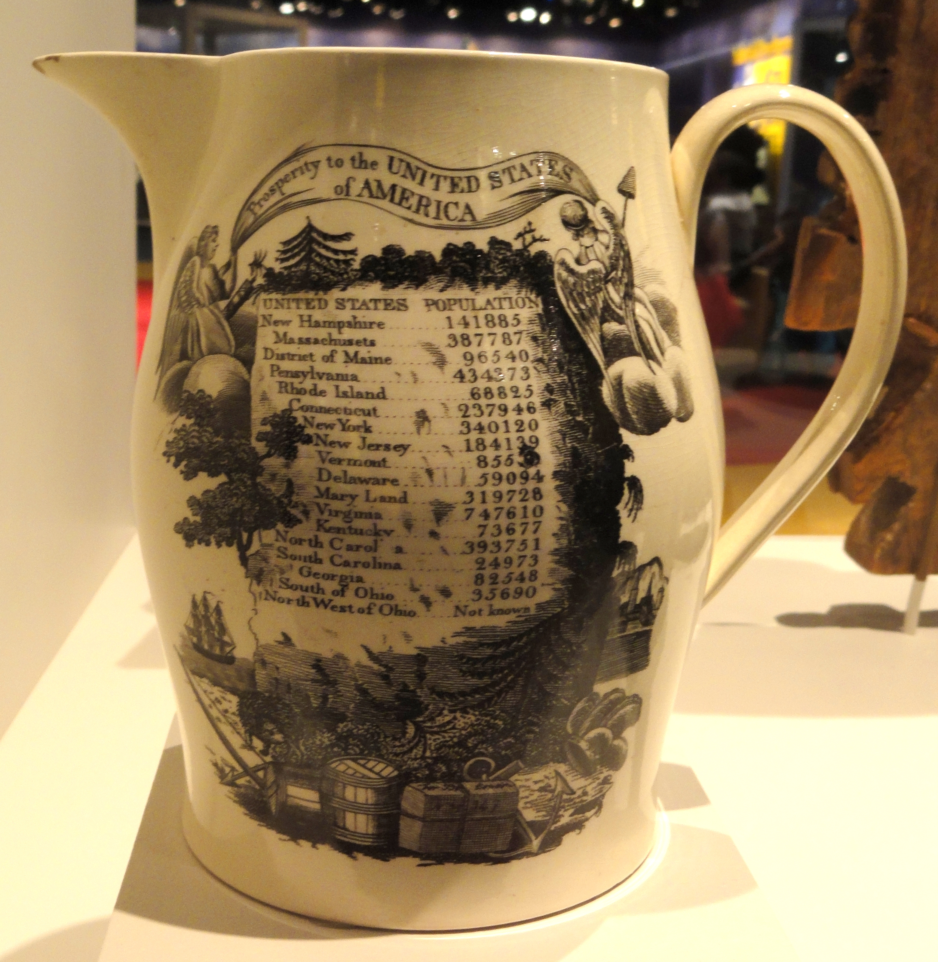 Exhibit in the National Museum of American History, Washington, DC, USA. This item is in the public domain because it is property of the national museum.